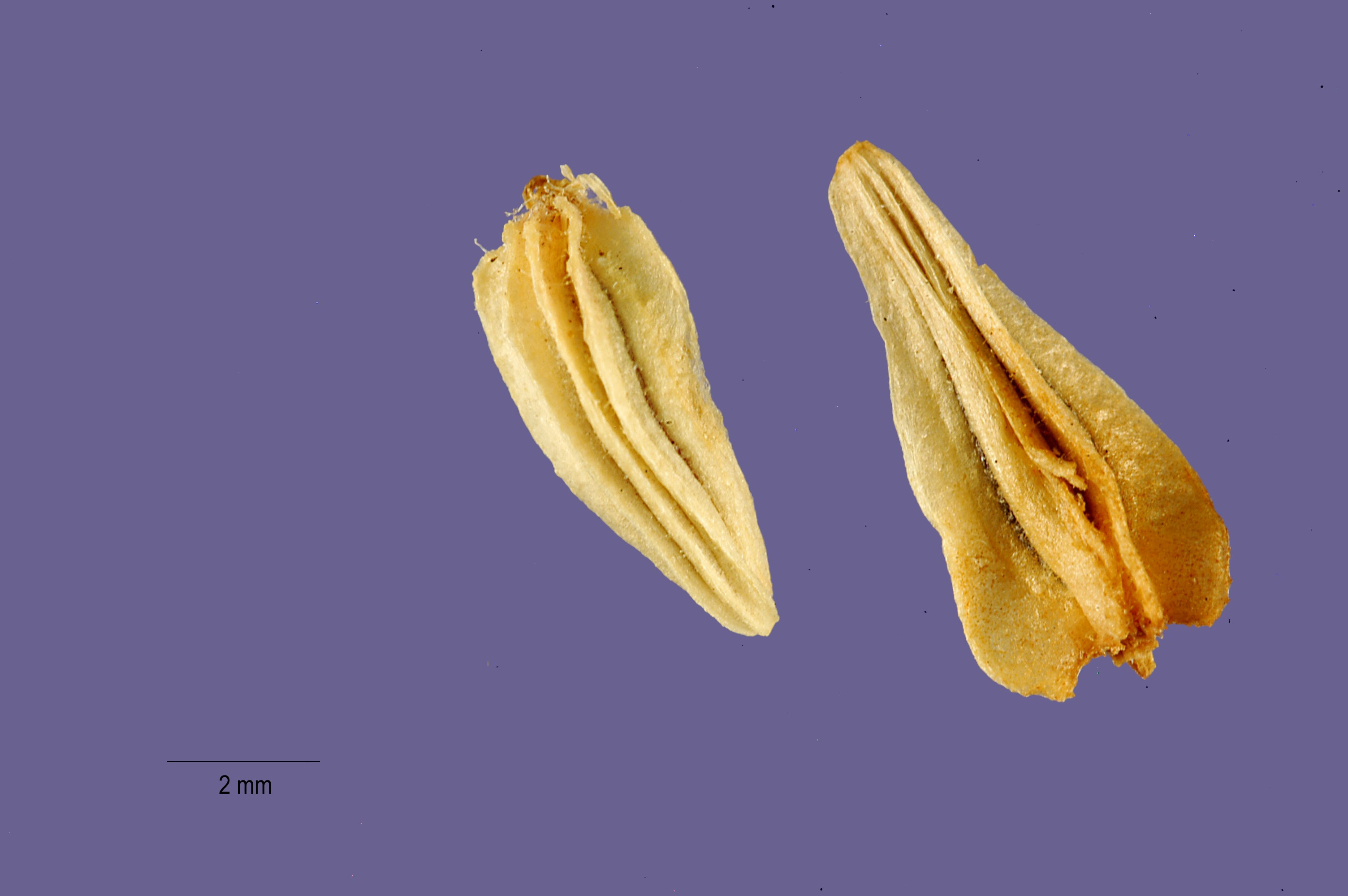 Angelica breweri seeds. Photo Provided by ARS Systematic Botany and Mycology Laboratory. United States, CA, Alpine Co.